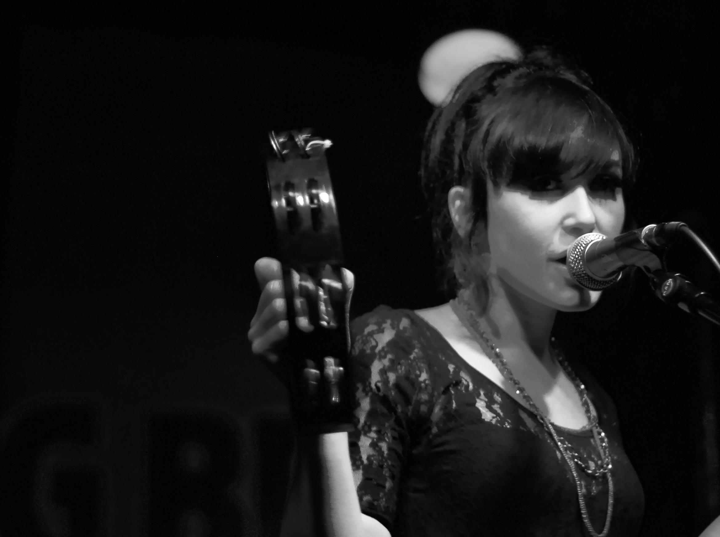 Howling Bells' Juanita Stein performs at The Fleece in Bristol on 3 March 2009.